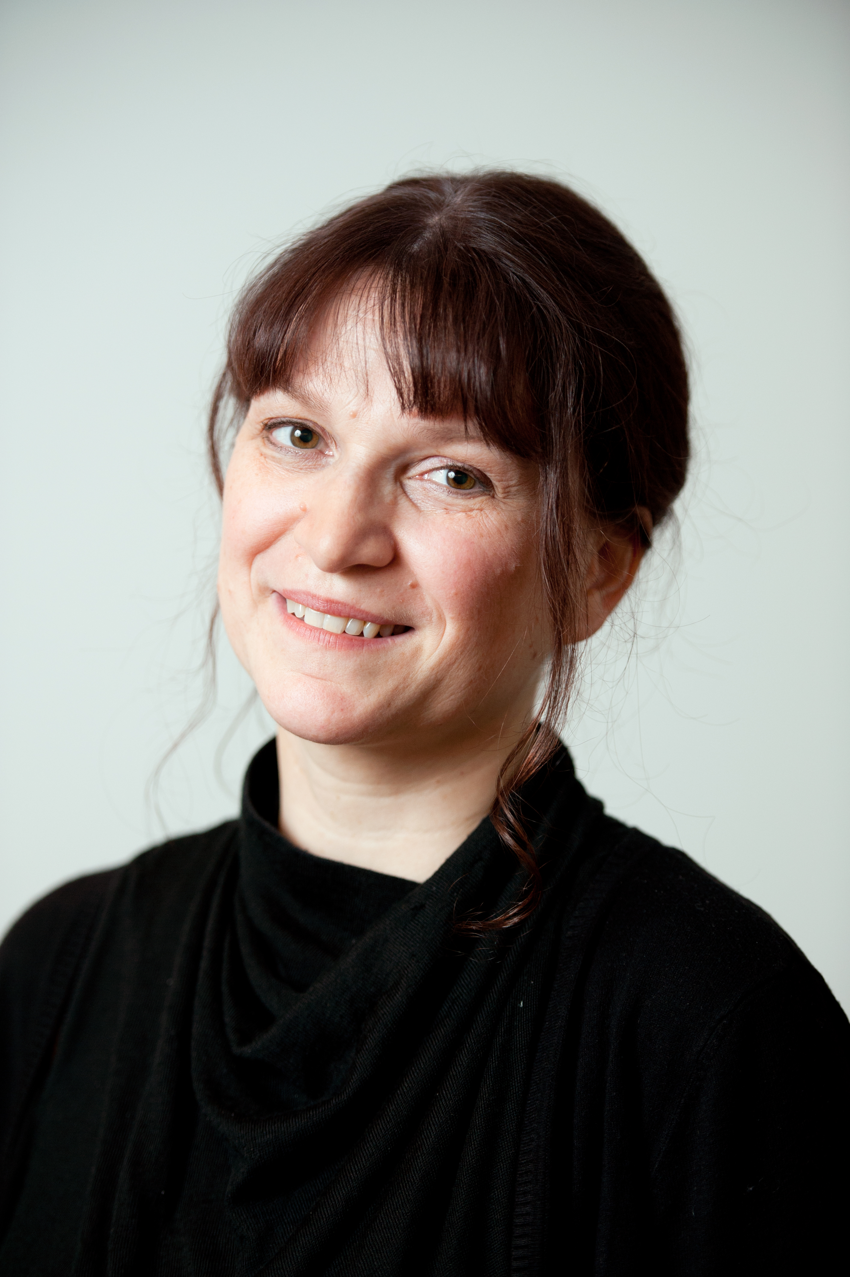 Norwegian writer Merethe Lindstrøm, winner of the 2012 Nordic Council's Literature Prize.